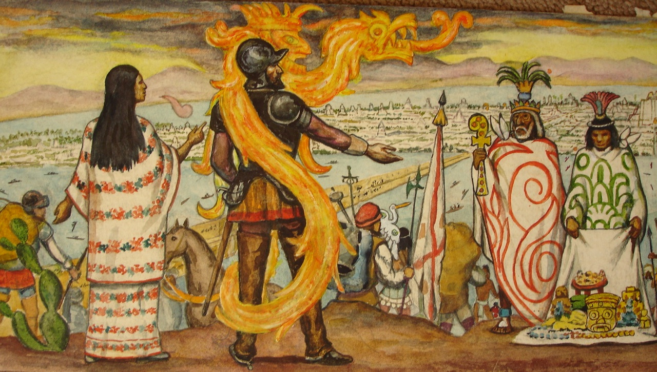 Malinche whith Cortés